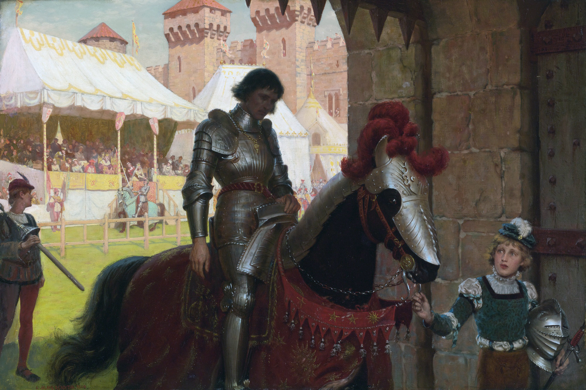 Vanquished signed b.l.: E. BLAIR LEIGHTON 1884 oil on canvas 51.4 x 76.8 cm